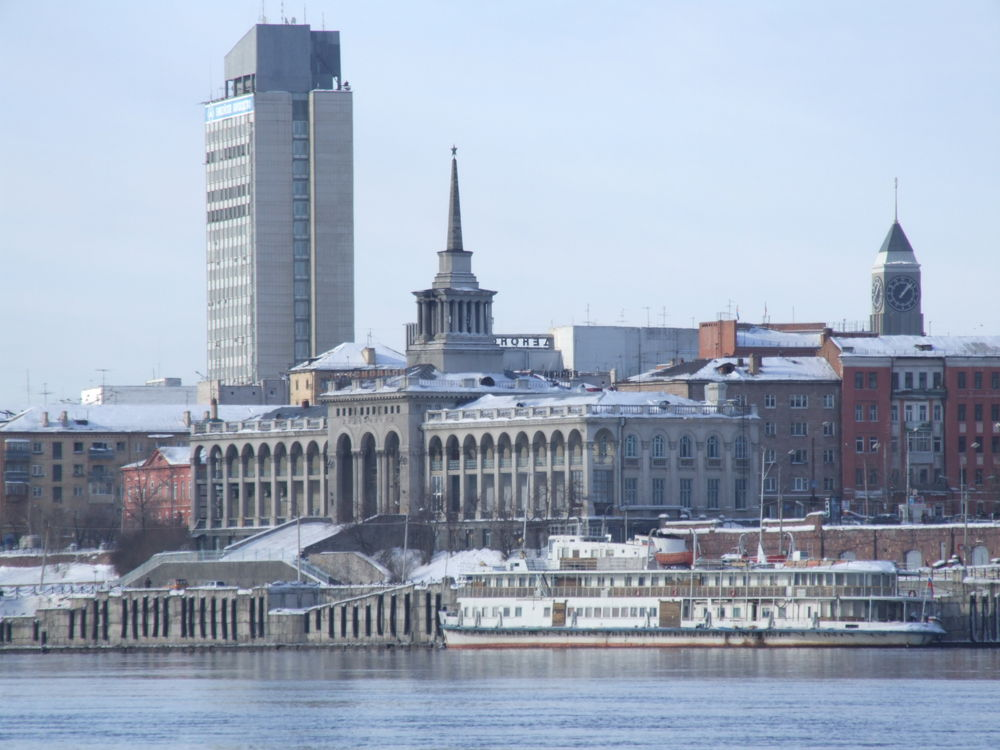 Krasnoyarsk riverport